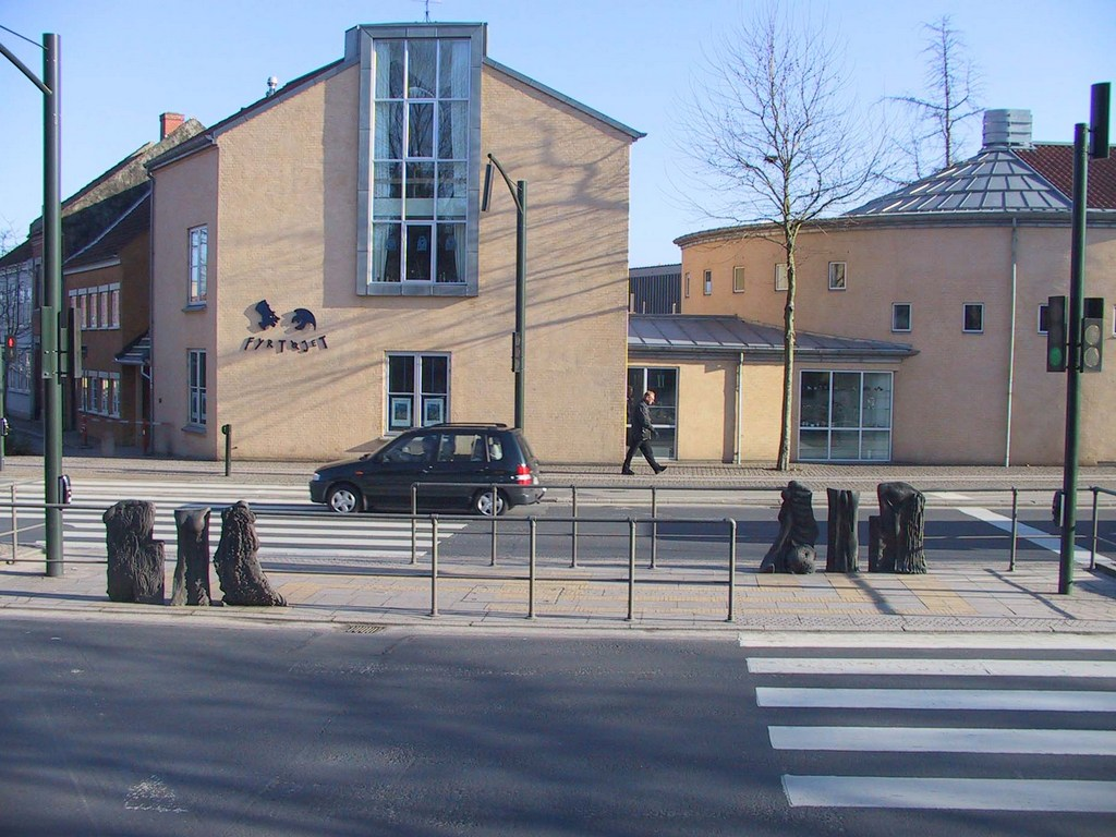 Adapted Surroundings #1 2000, Poul R. Weile, Thomas B. Thriges Street, Odense, Denmark